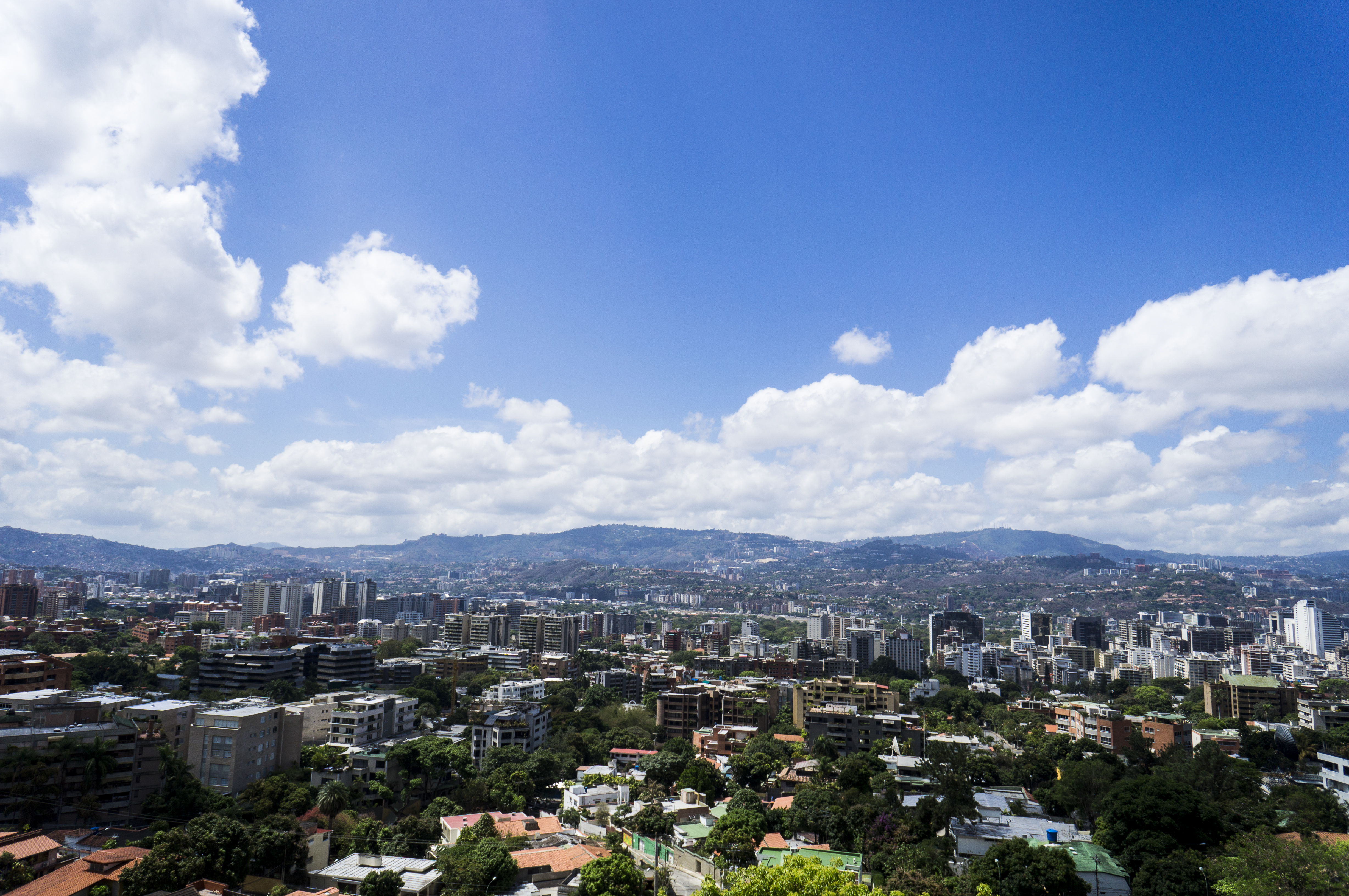 This is a view of Caracas, Venezuela, as seen from Boyacá Avenue